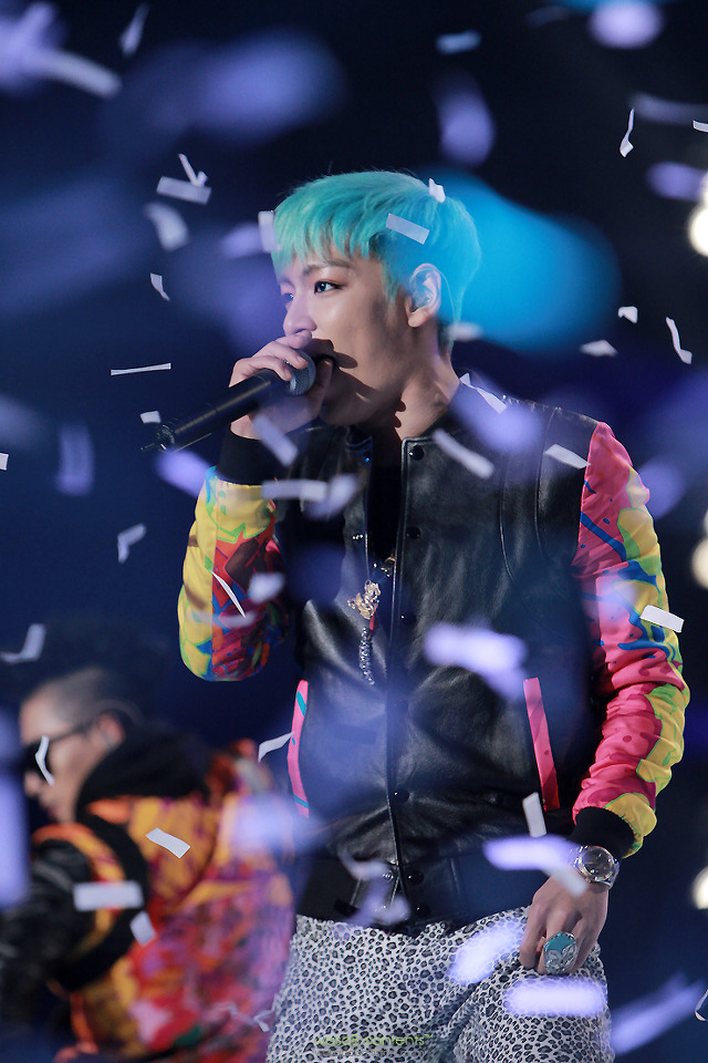 T.O.P in K-Collection fashion show 2012